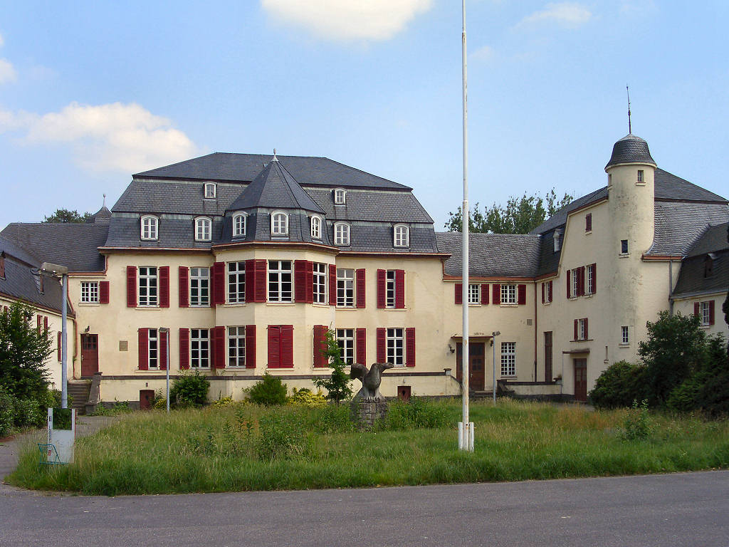 Venauen - Residence of the ancient nobility in medieval times